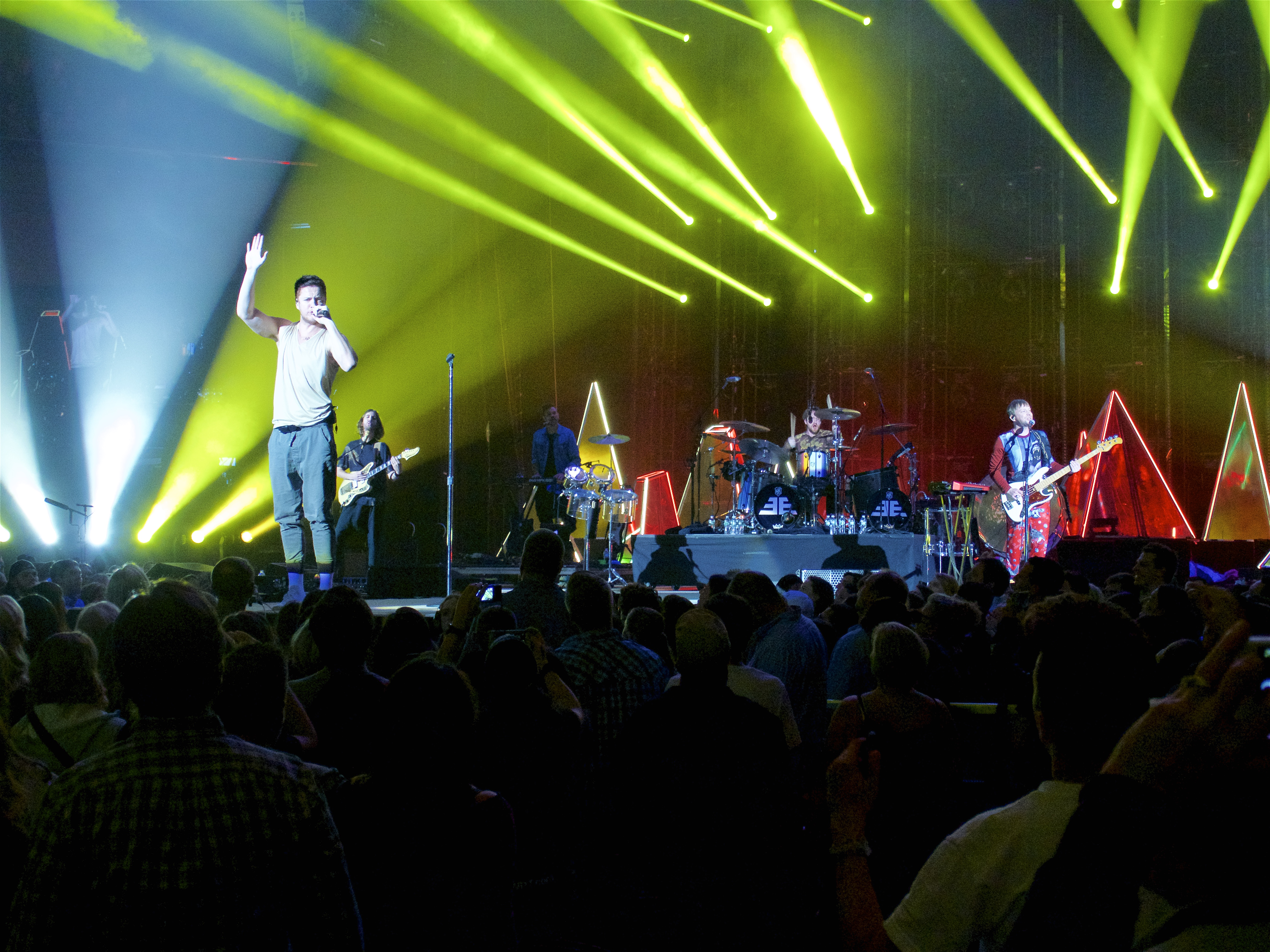 Imagine Dragons live in concert at Mohegan Sun in Uncasville, Connecticut, November 2017.